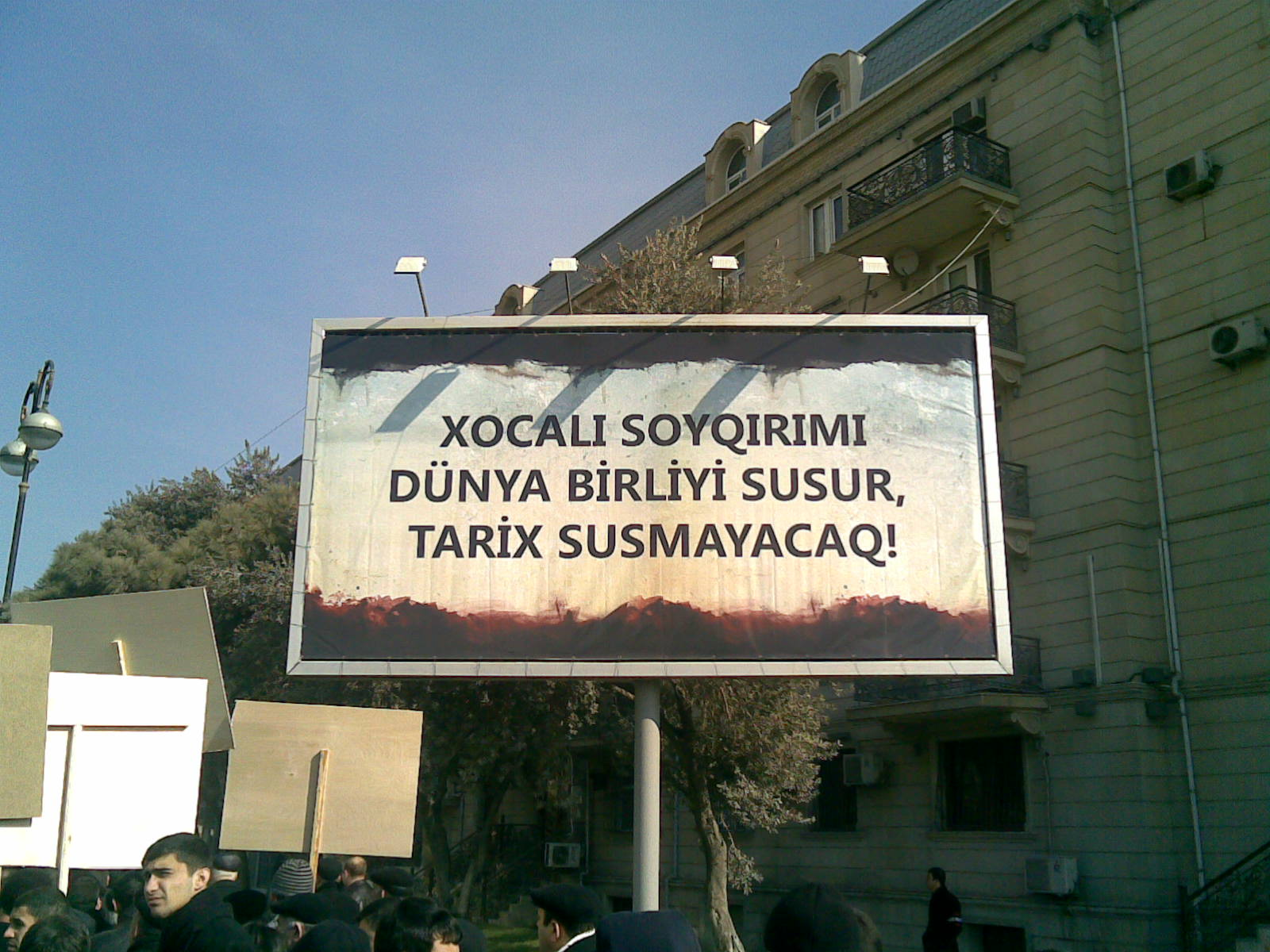 Khojaly 20